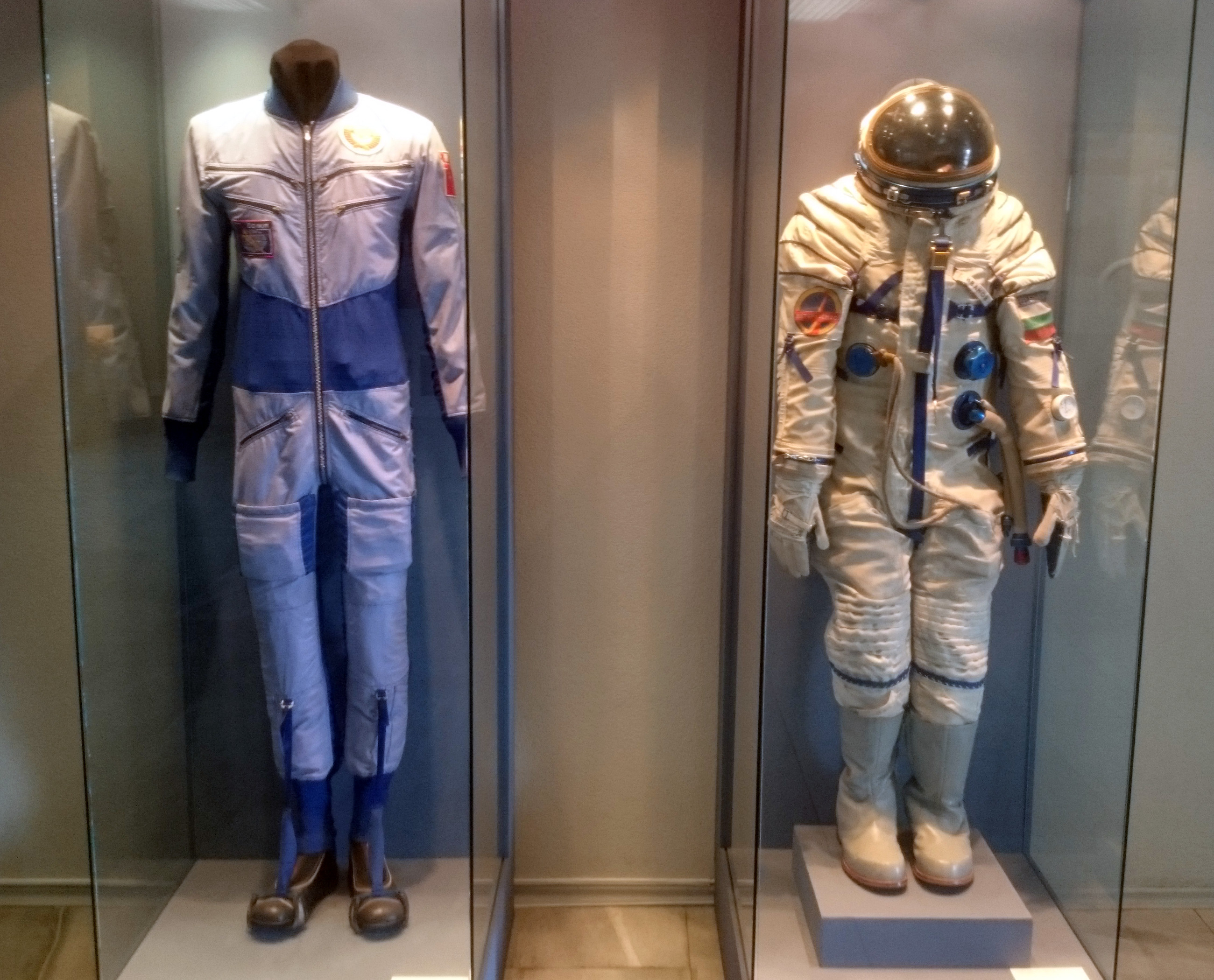 The space and work suits of Georgi Ivanov from his flight on Soyuz 33